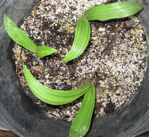 Beccariophoenix alfredii seedlings